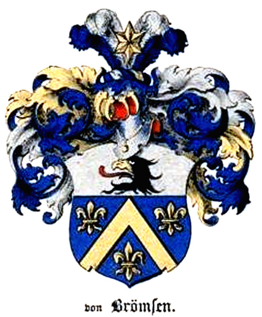 Coat of arms of Brömsen family